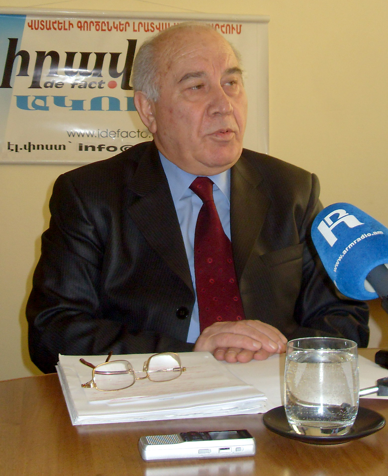 Ruben Tovmasyan is the General Secretary of the Armenian Communist Party 2005-2013.